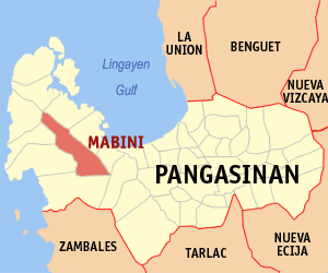 Map of Pangasinan showing the location of Mabini